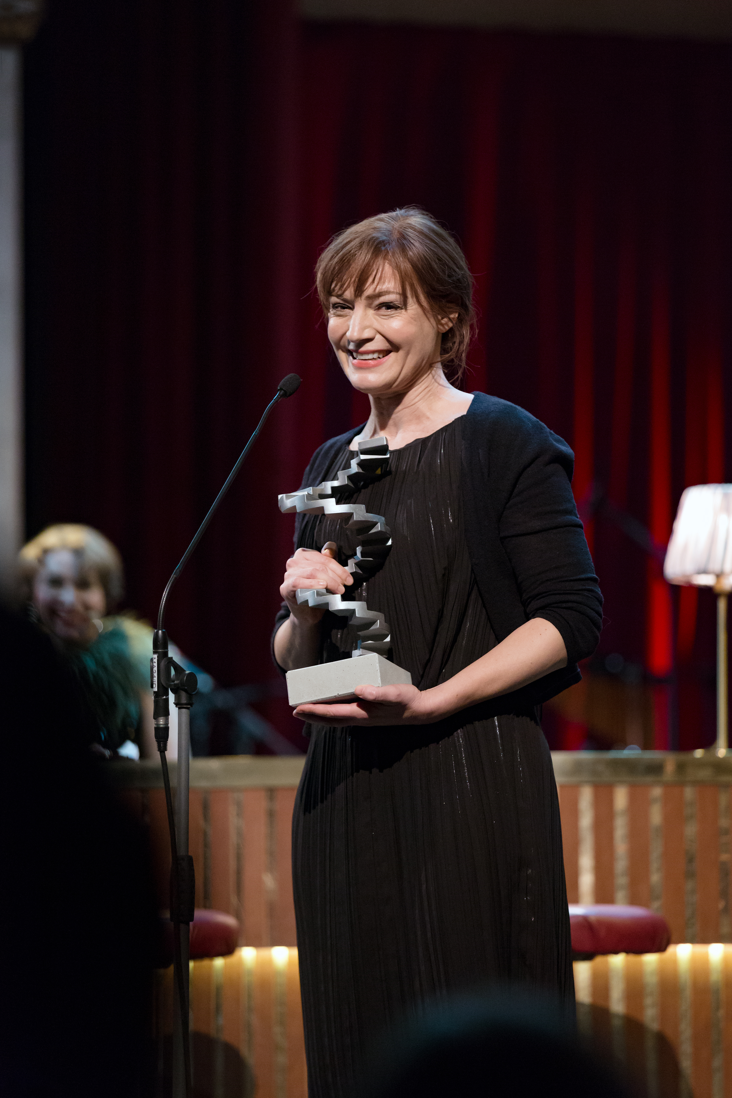 Austrian Film Awards 2017: Marion Mitterhammer, winner for best female supporting actress (Stille Reserven); Rathaus, Vienna, Austria.